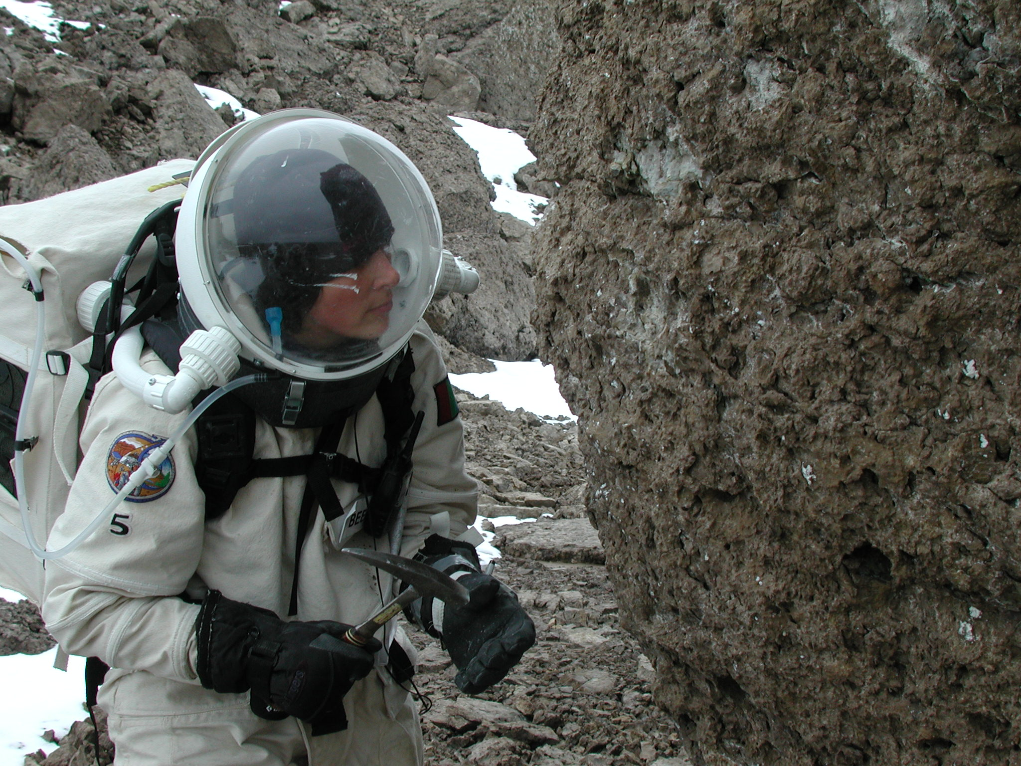 Geologist Nell Beedle of Crew 7 examines fossilized algal mats in Devo Rock canyon on Devon Island in July 2002.